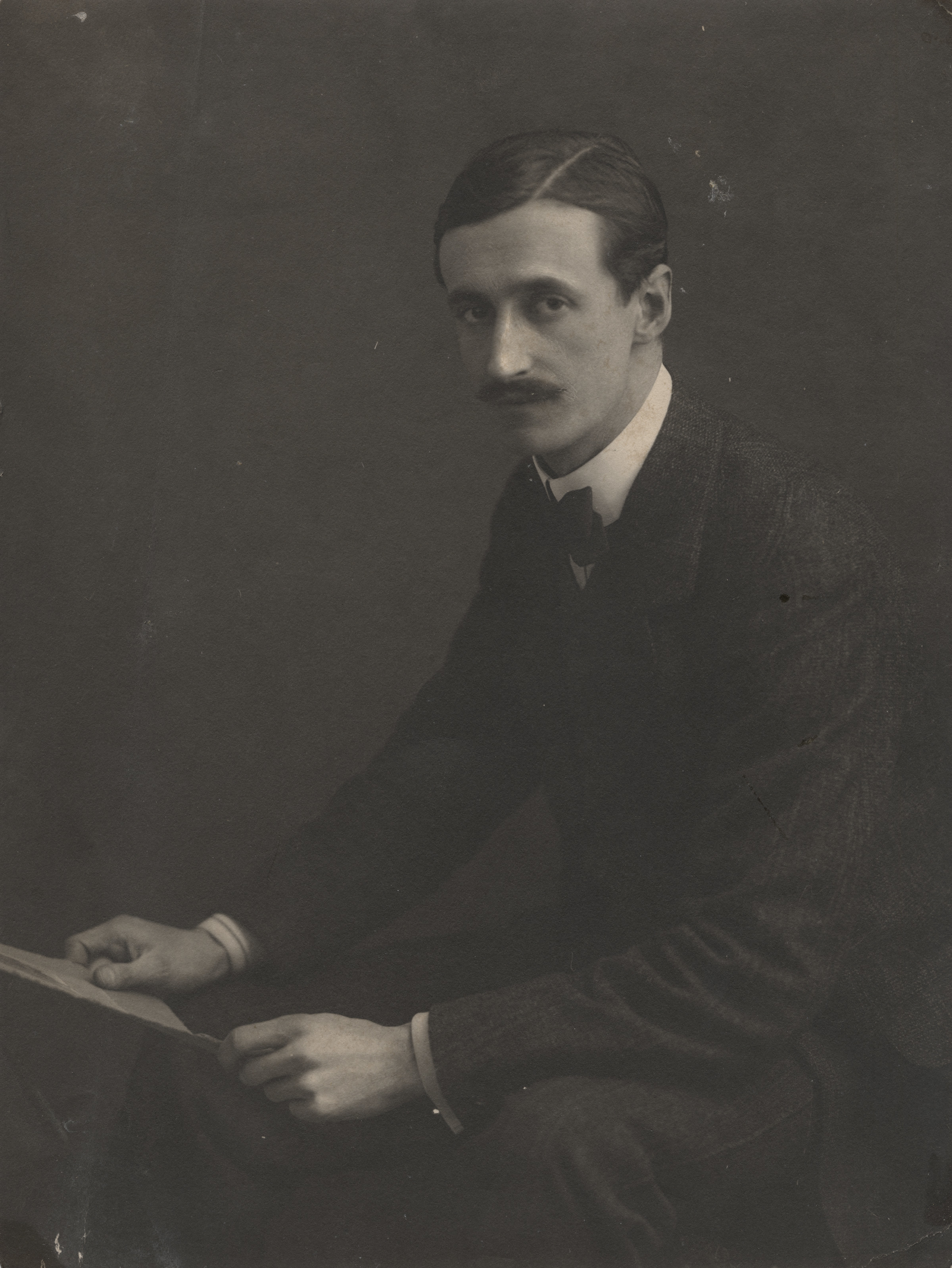 Depicted person: Bertram Park – British photographer